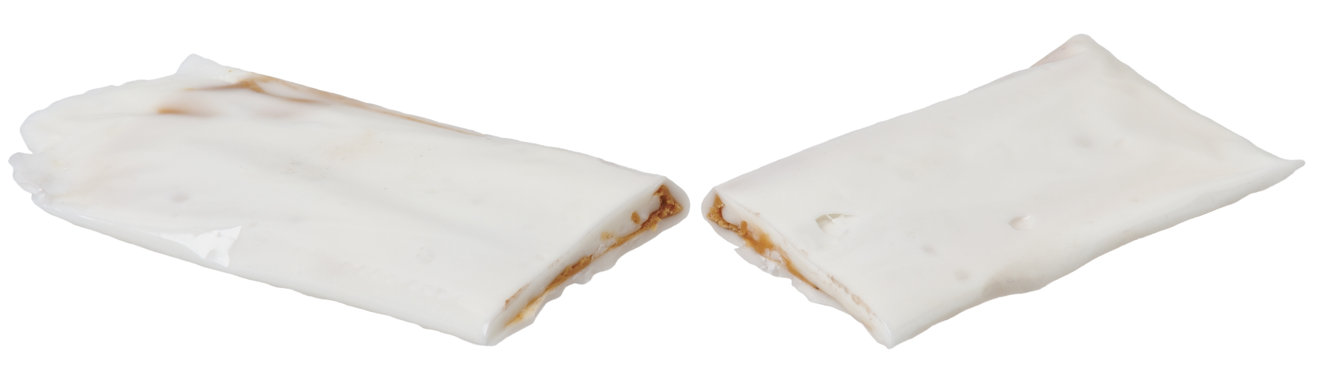 An Abba-Zaba bar split in half. A white taffy/nougat bar with peanut butter filling.